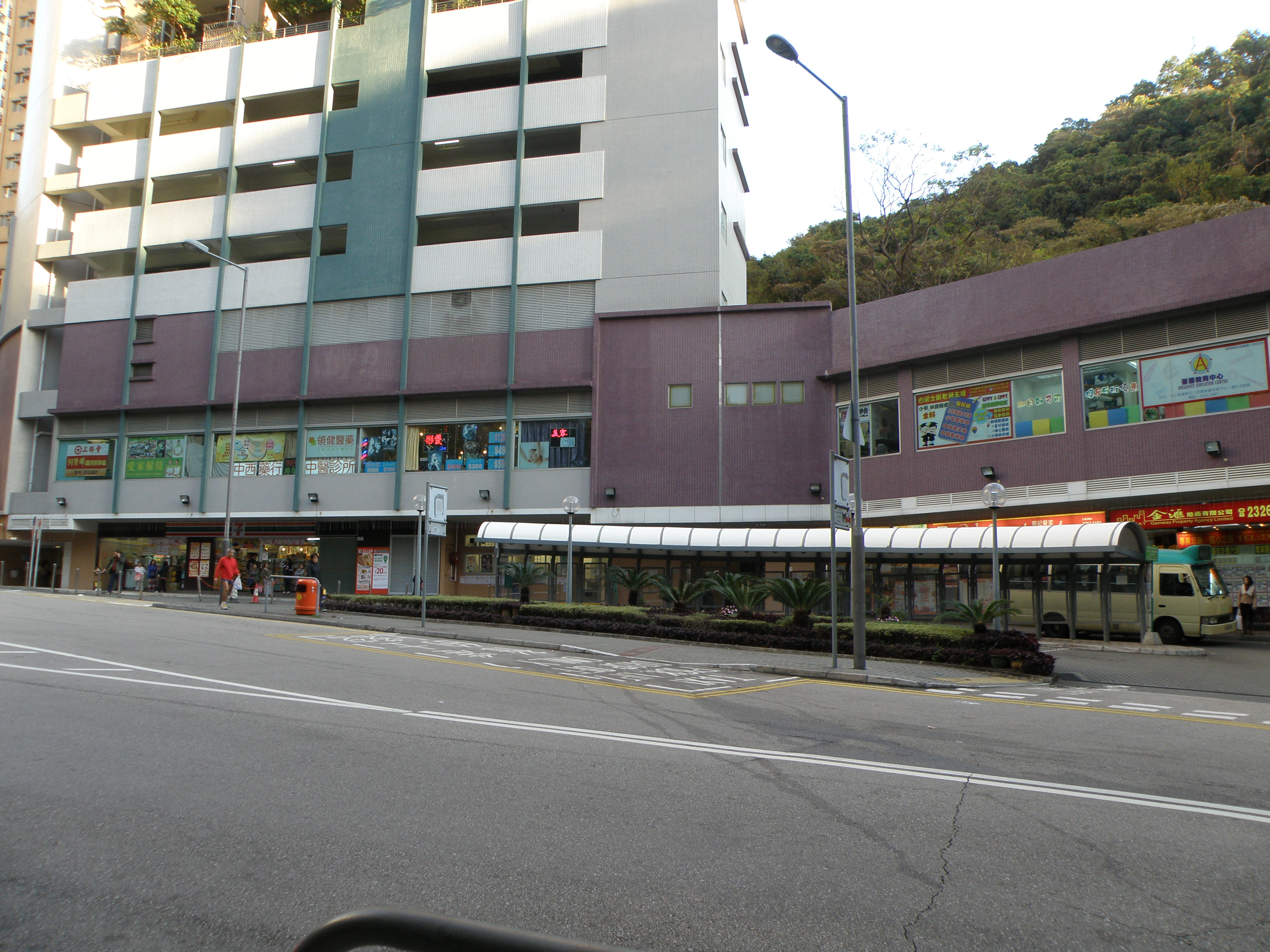 Kingsford Terrace (shopping centre) in Hammer Hill, Hong Kong.